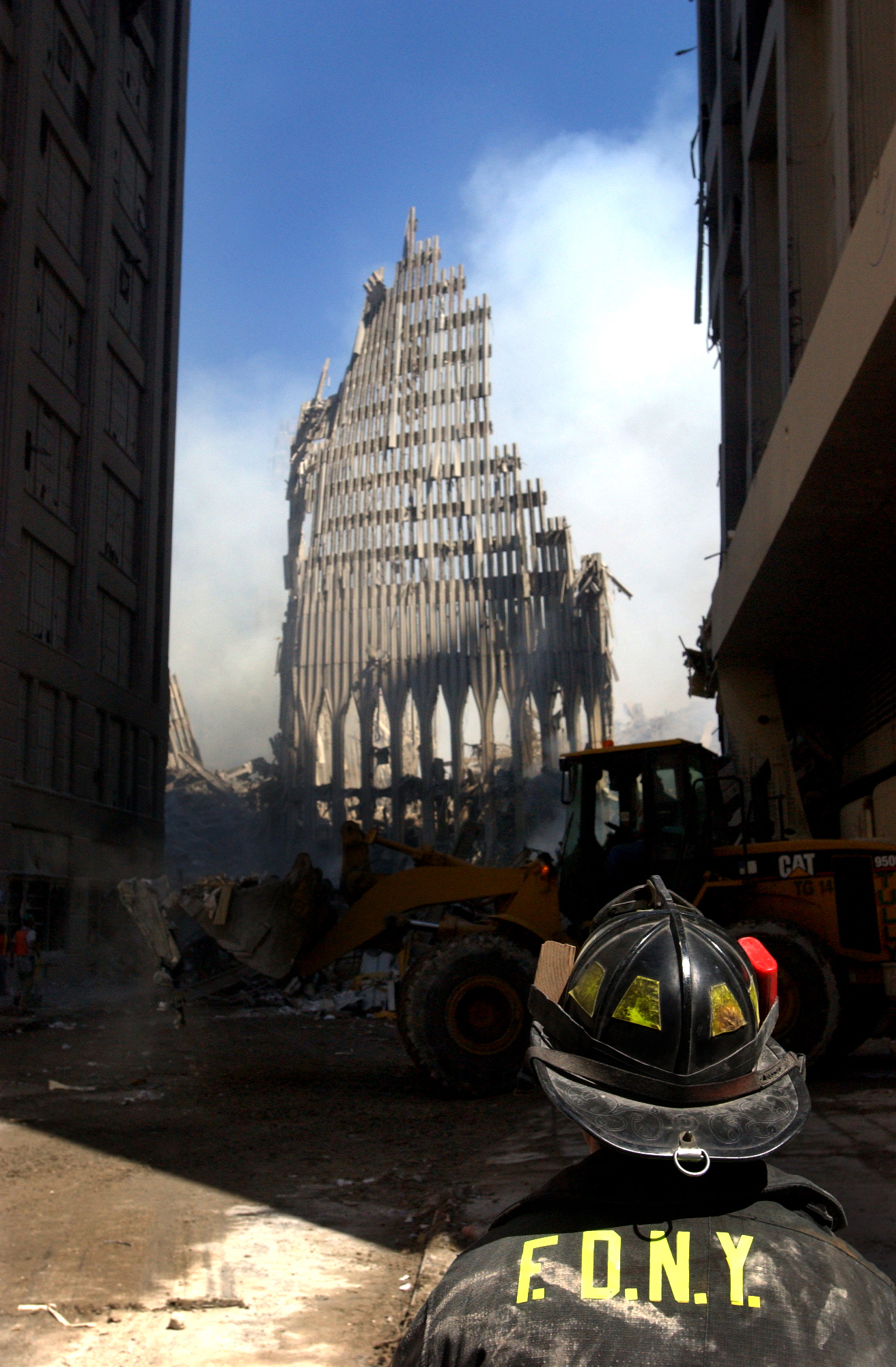 010913-N-1350W-003 New York, N.Y. (Sept. 13, 2001) -- A New York City fire fighter looks up at what remains of the World Trade Center after its collapse during the Sept. 11 terrorist attack. U.S. Navy Photo by Photographer's Mate 2nd Class Jim Watson. (RELEASED)